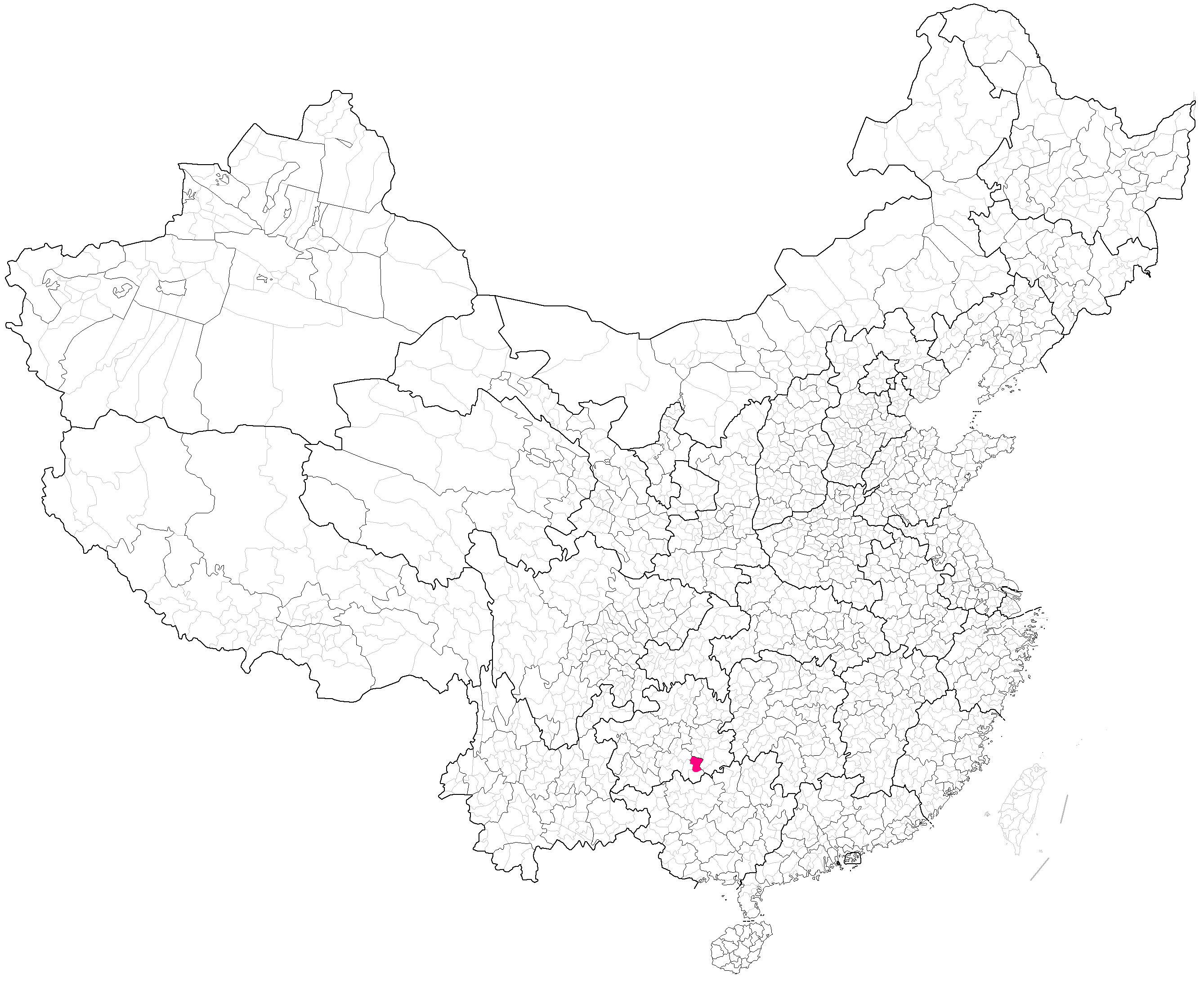 Map of Sui-designated autonomous prefectures and counties in China.